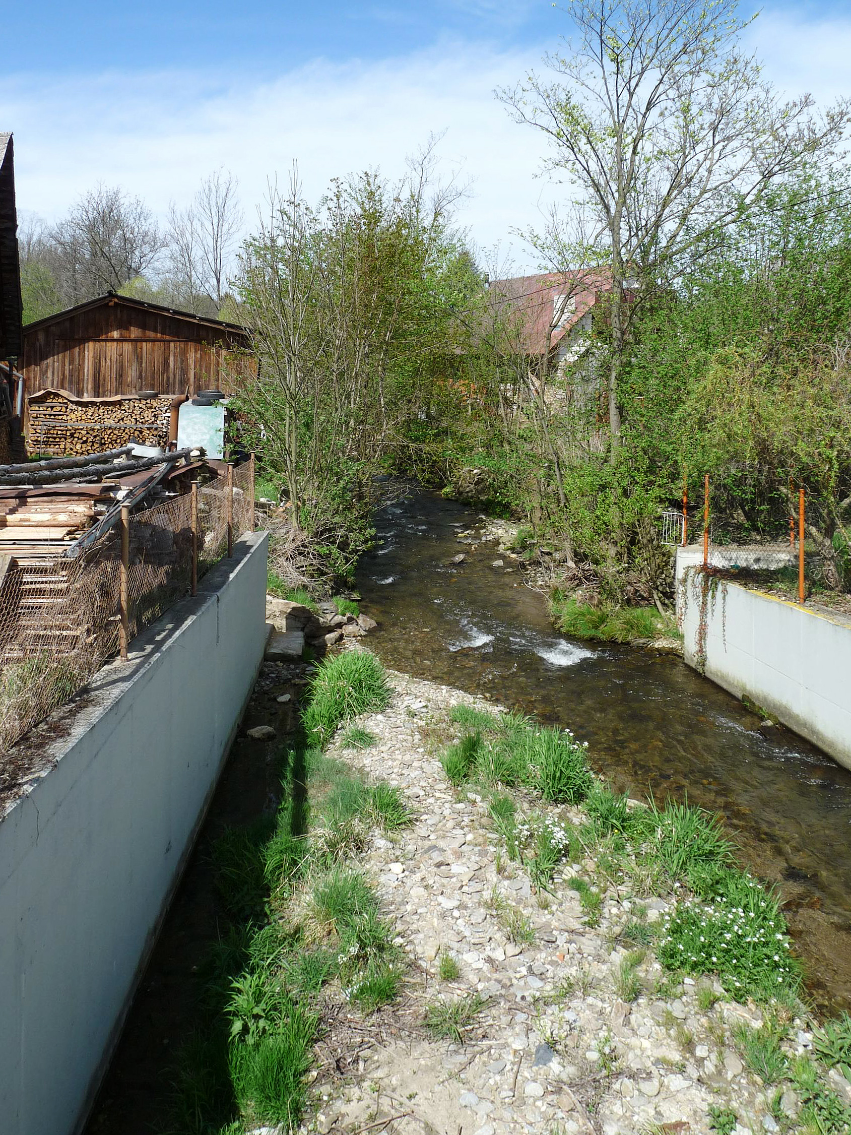 Jelenka Stream in the village of Opálka, part of the town of Strážov, Klatovy District, Czech Republic